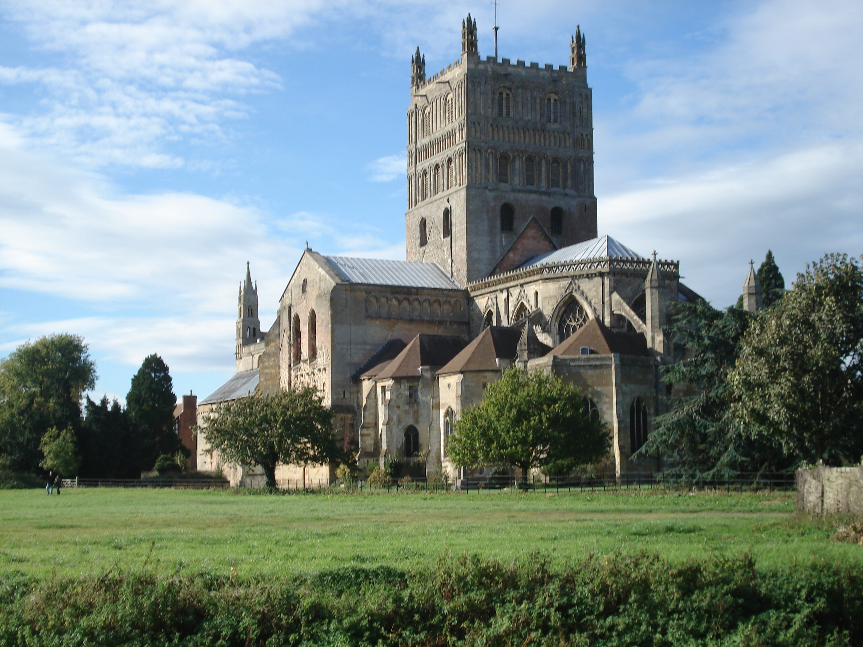 Tewkesbury Abbey